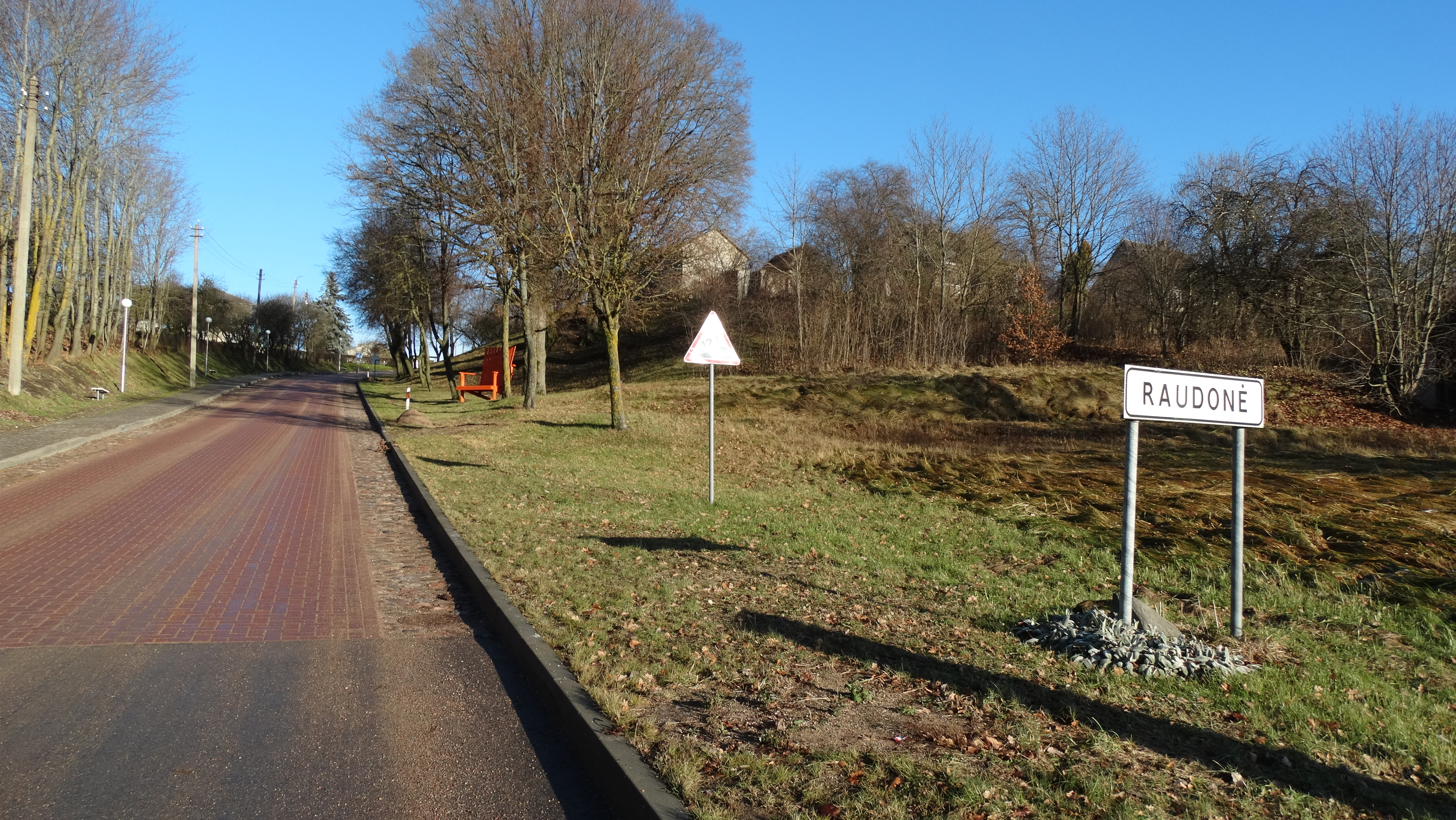 Raudonė, Jurbarkas district, Lithuania